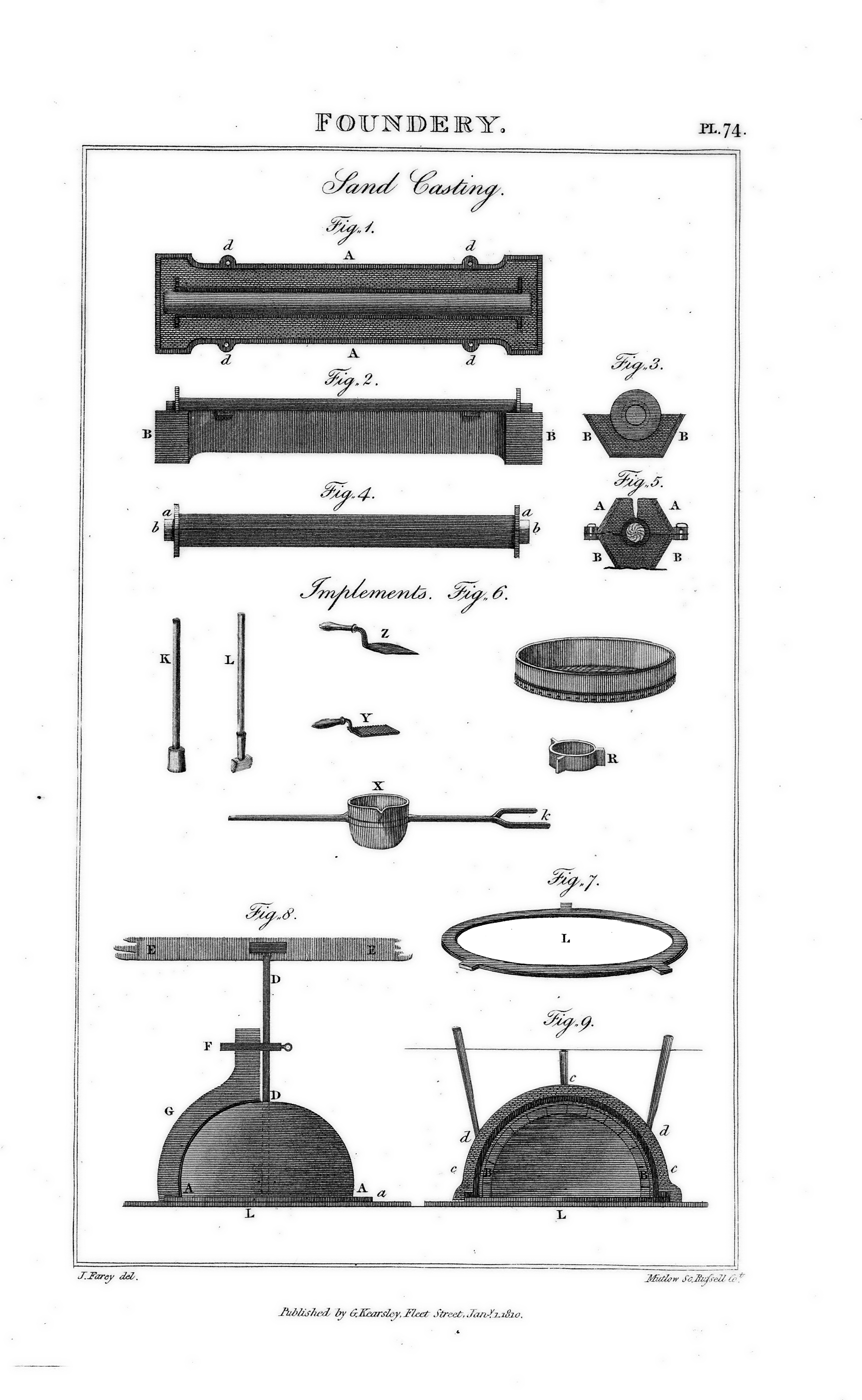 Plate 74 from Pantologia featuring sand casting